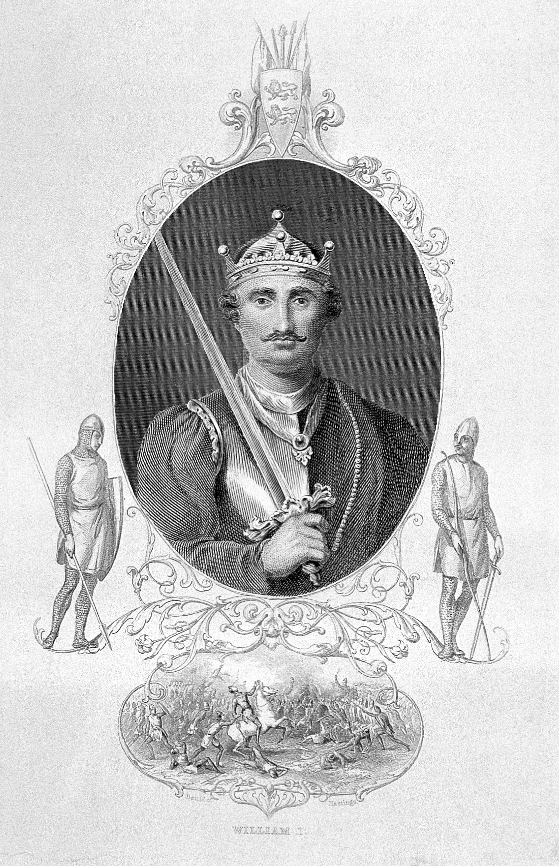 Portrait of King William I The Conqueror and the Battle of Hastings. Iconographic Collections Keywords: William I The Conqueror